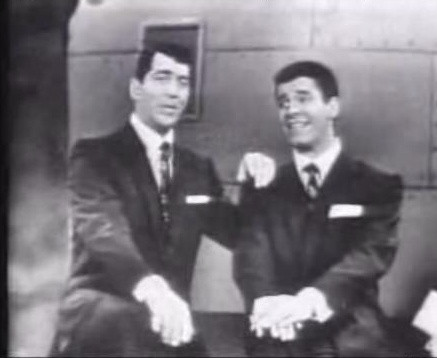 Screenshot of Colgate Comedy Hour